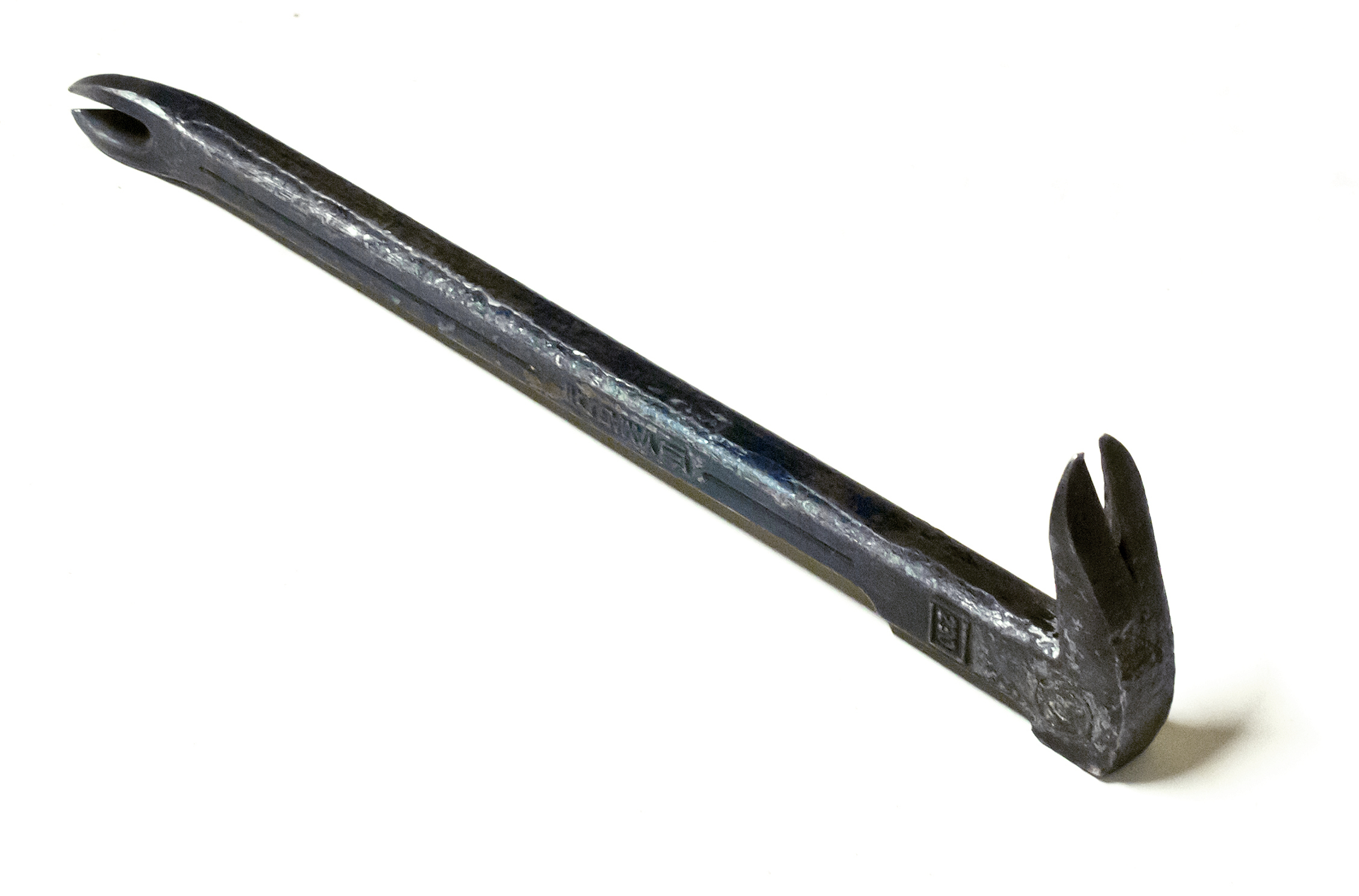 Pic of a Catspaw (nail puller) tool for pulling carpenter's nails. Note: unfortunately there is no ruler in the picture to show its size, but it is about 8 inches long.